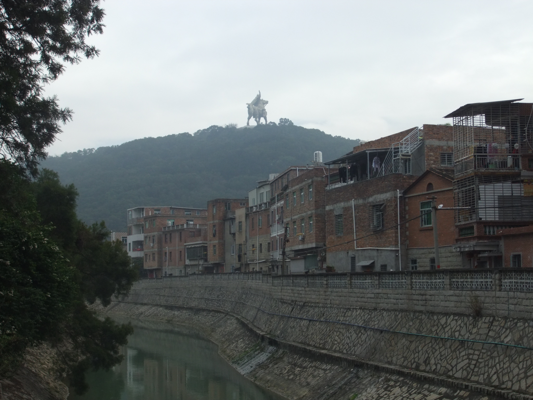 The huge equestrian statue of Zheng Chenggong (Koxinga) on a hill on the east side of Quanzhou.